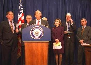 Senator Kay Bailey Hutchison joins Senator Alfonse D'Amato (speaking) and Senator Pete Domenici (far left), Chairman of the Senate Budget Committee, to announce an agreement on mass transit funding legislation which was incorporated into the ISTEA bill. (3/10/98)